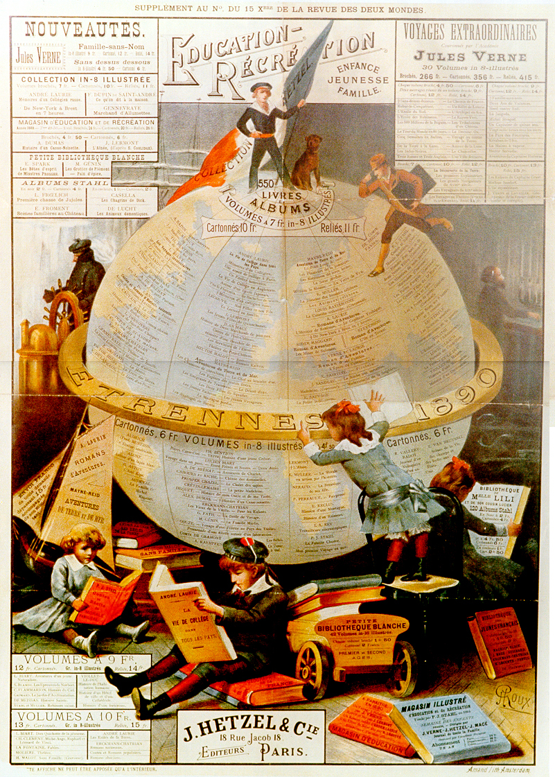 Full-page magazine advertisement by George Roux for J. Hetzel & Cie., a Paris publishing house founded by Pierre-Jules Hetzel. The ad highlights Hetzel's publications for the young, including works by Jules Verne, Mayne Reid, André Laurie, and others.